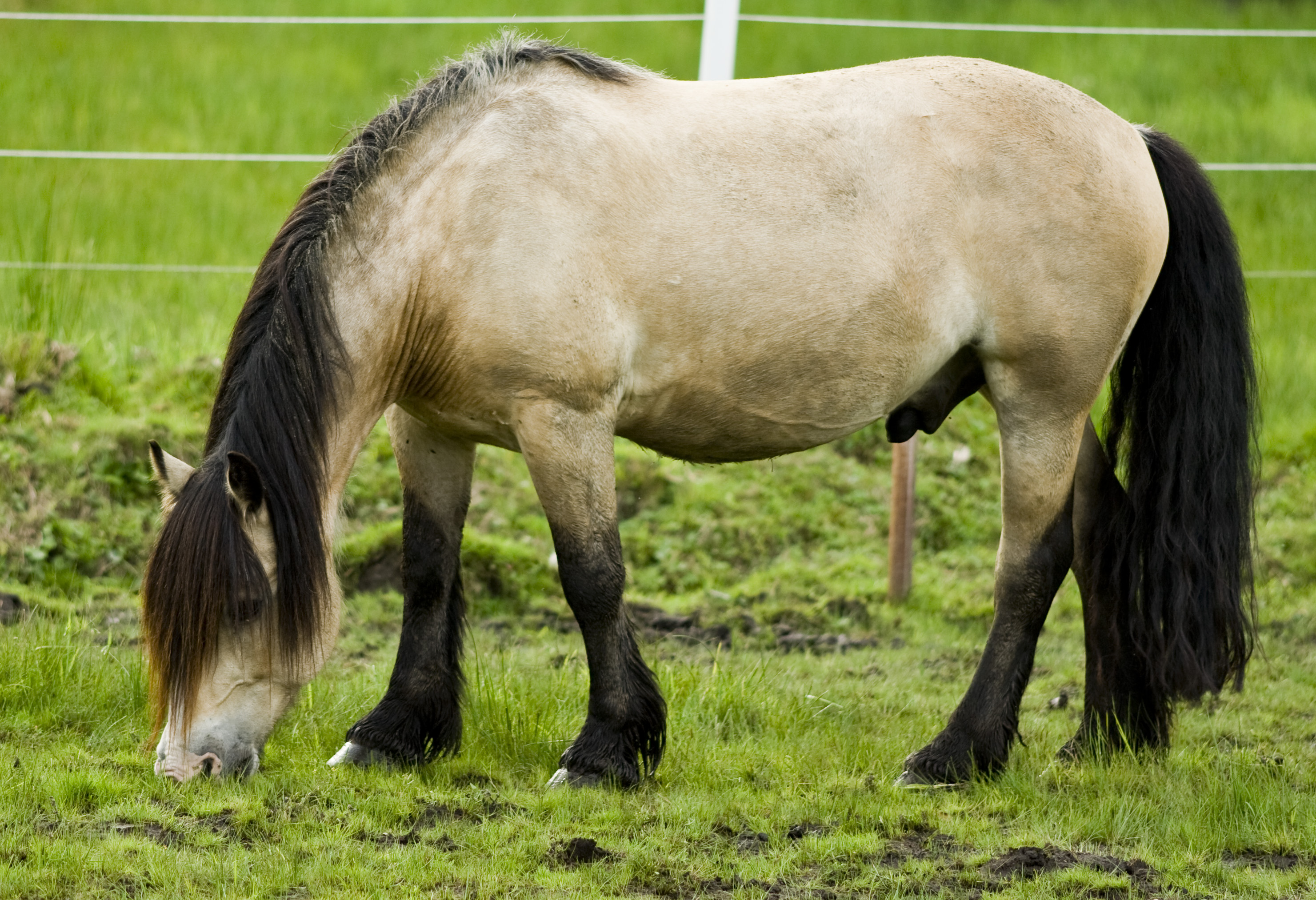 A buckskin Dole Gudbrandsdal horse "Norlys" grazing.